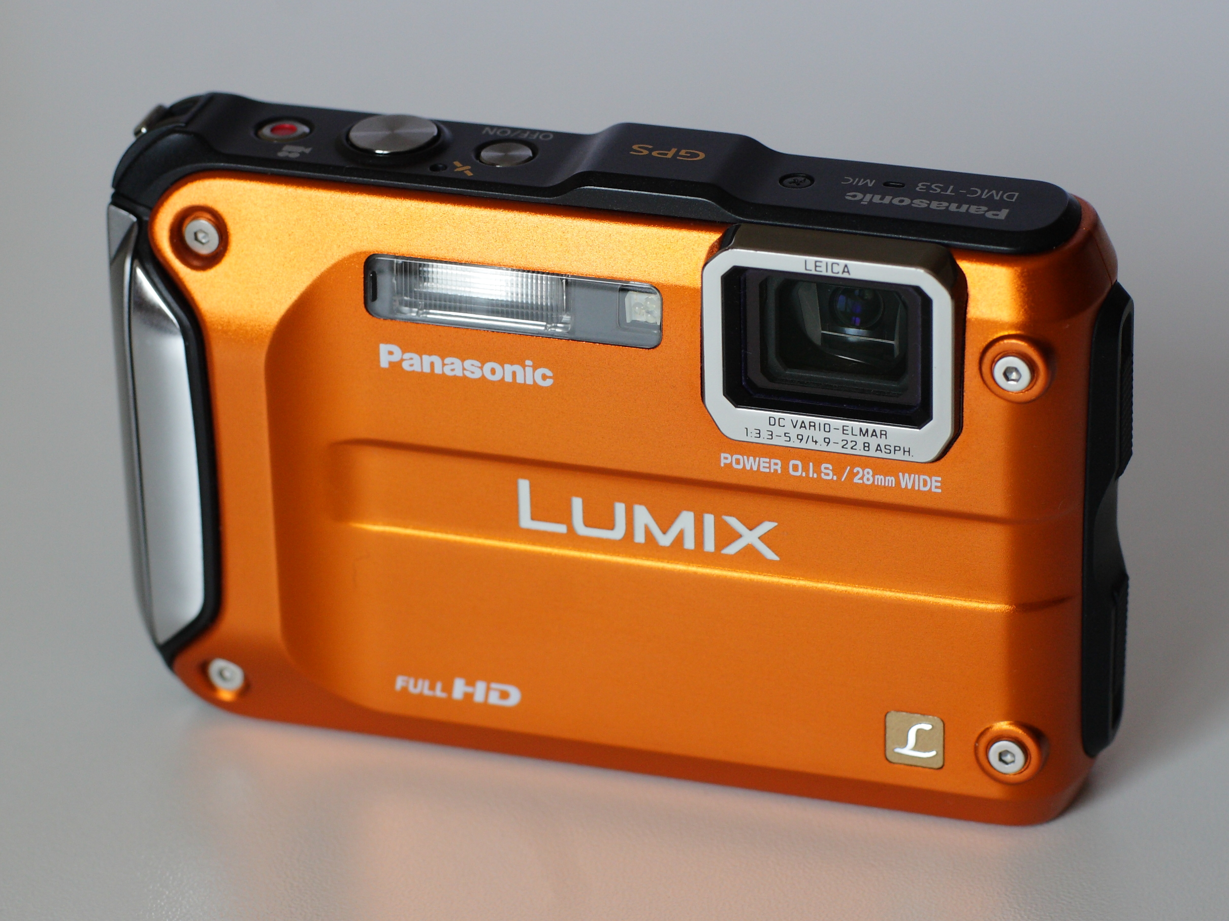 Panasonic Lumix DMC-TS3